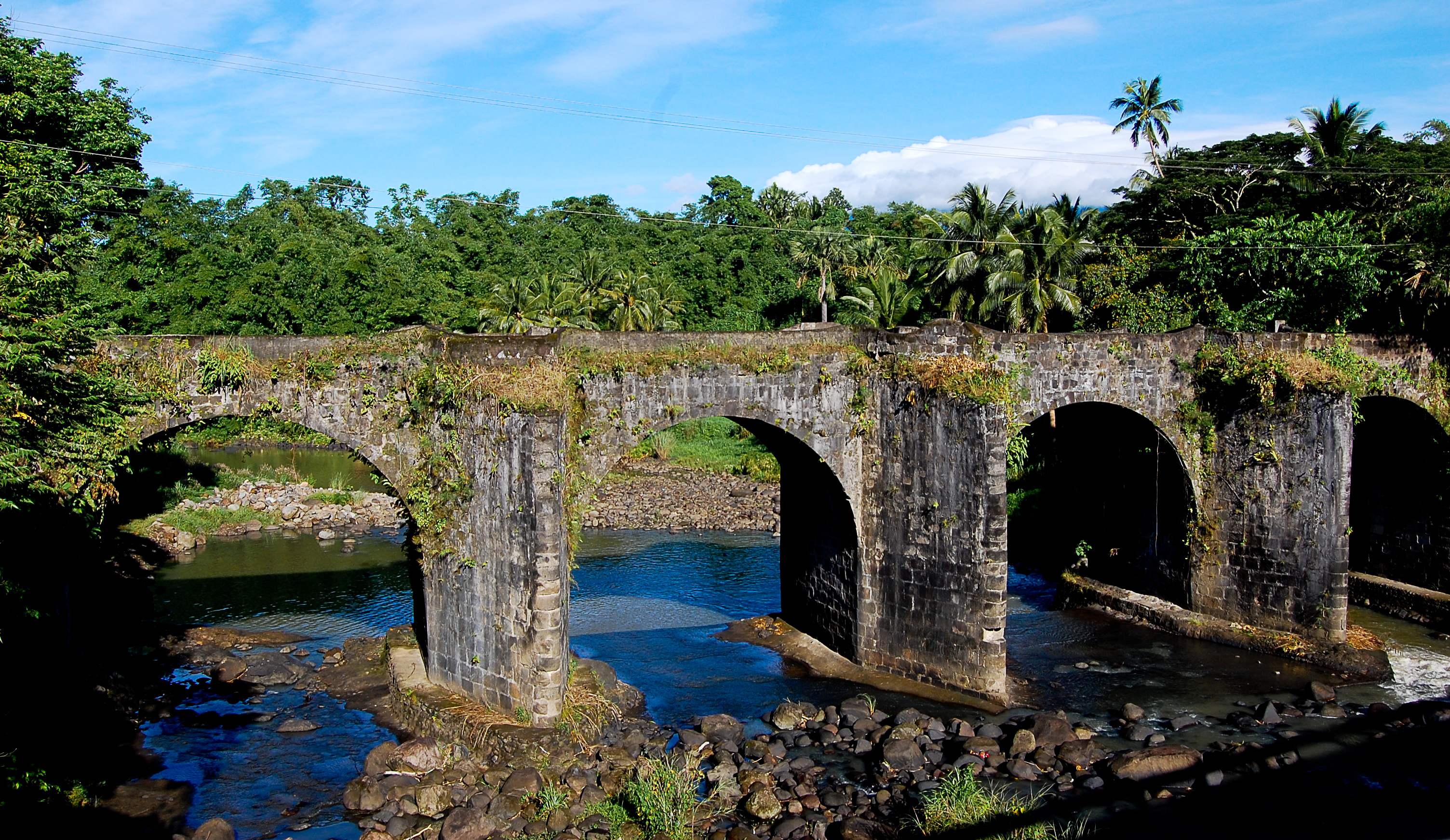 The Malagonlong Bridge — one of the few remaining colonial stone bridges in the Philippines. Built from 1840 to 1850 under the supervision of Fr. Antonio Mateos .